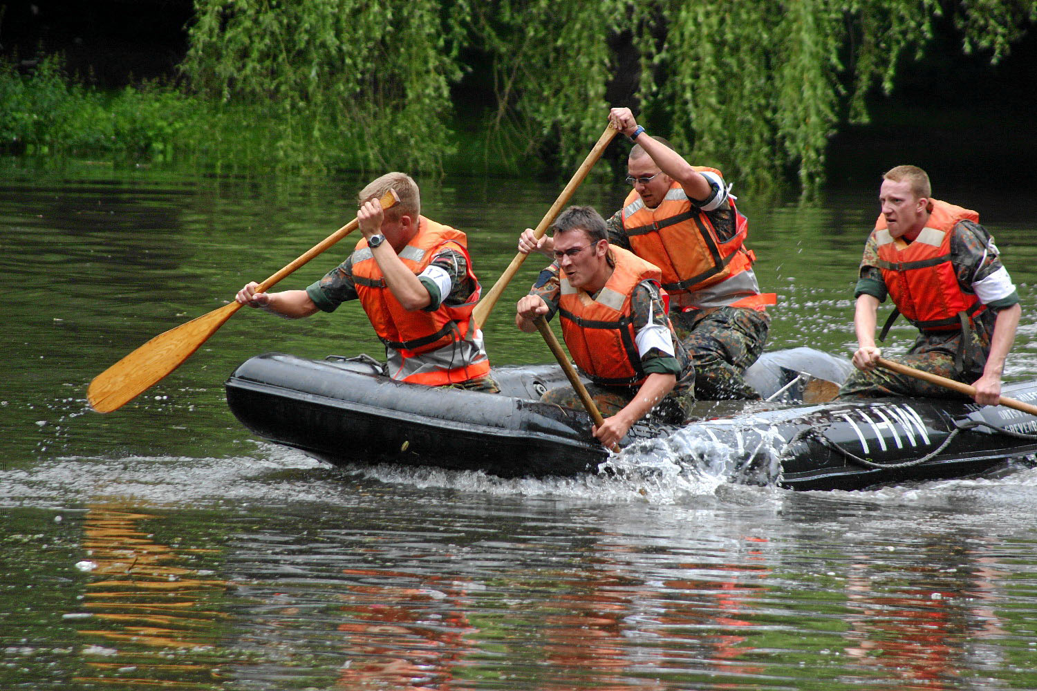 IMM 2005